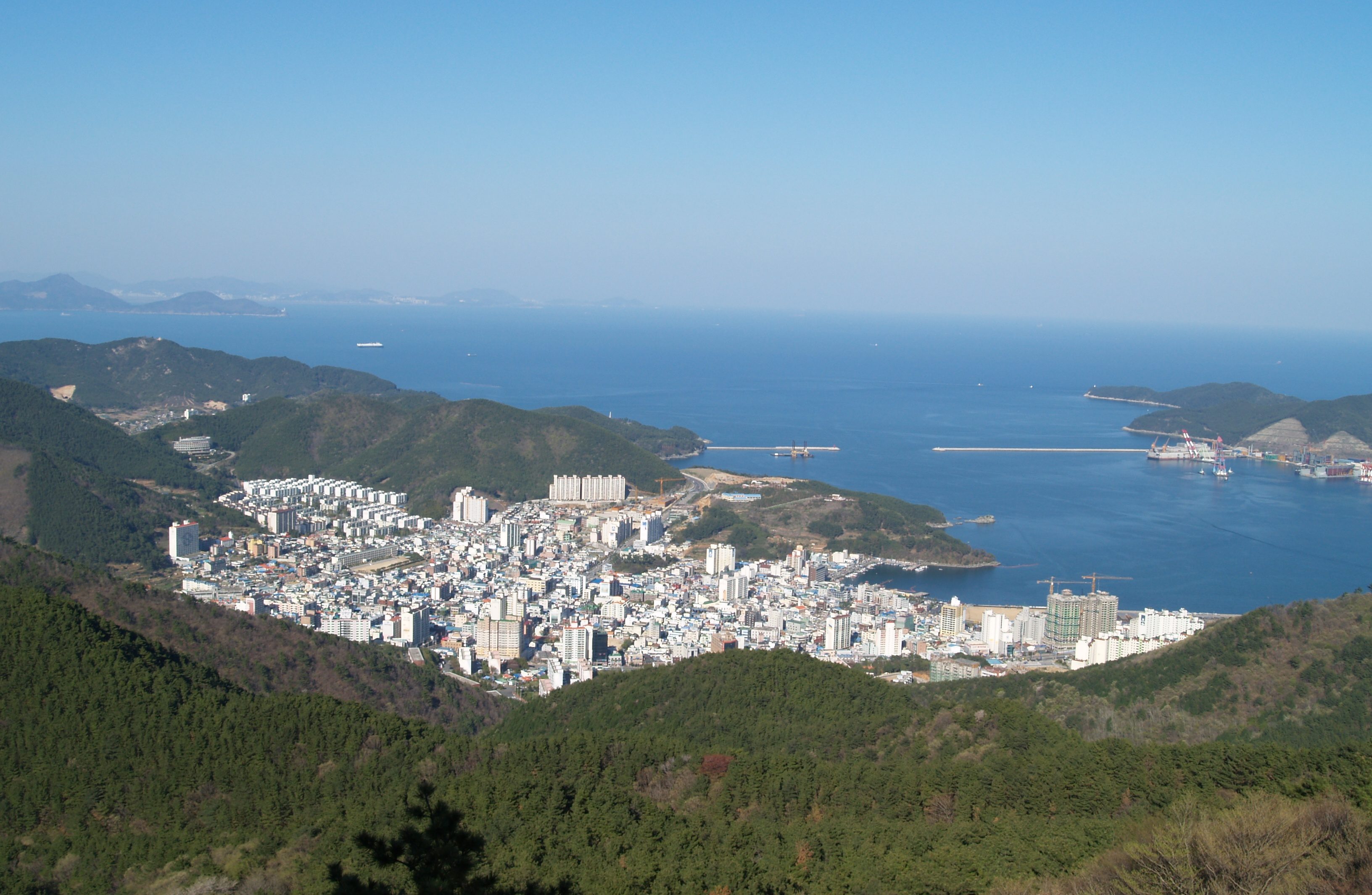 A view of Okpo in South Gyeongsang province, South Korea, in 2005/2006.